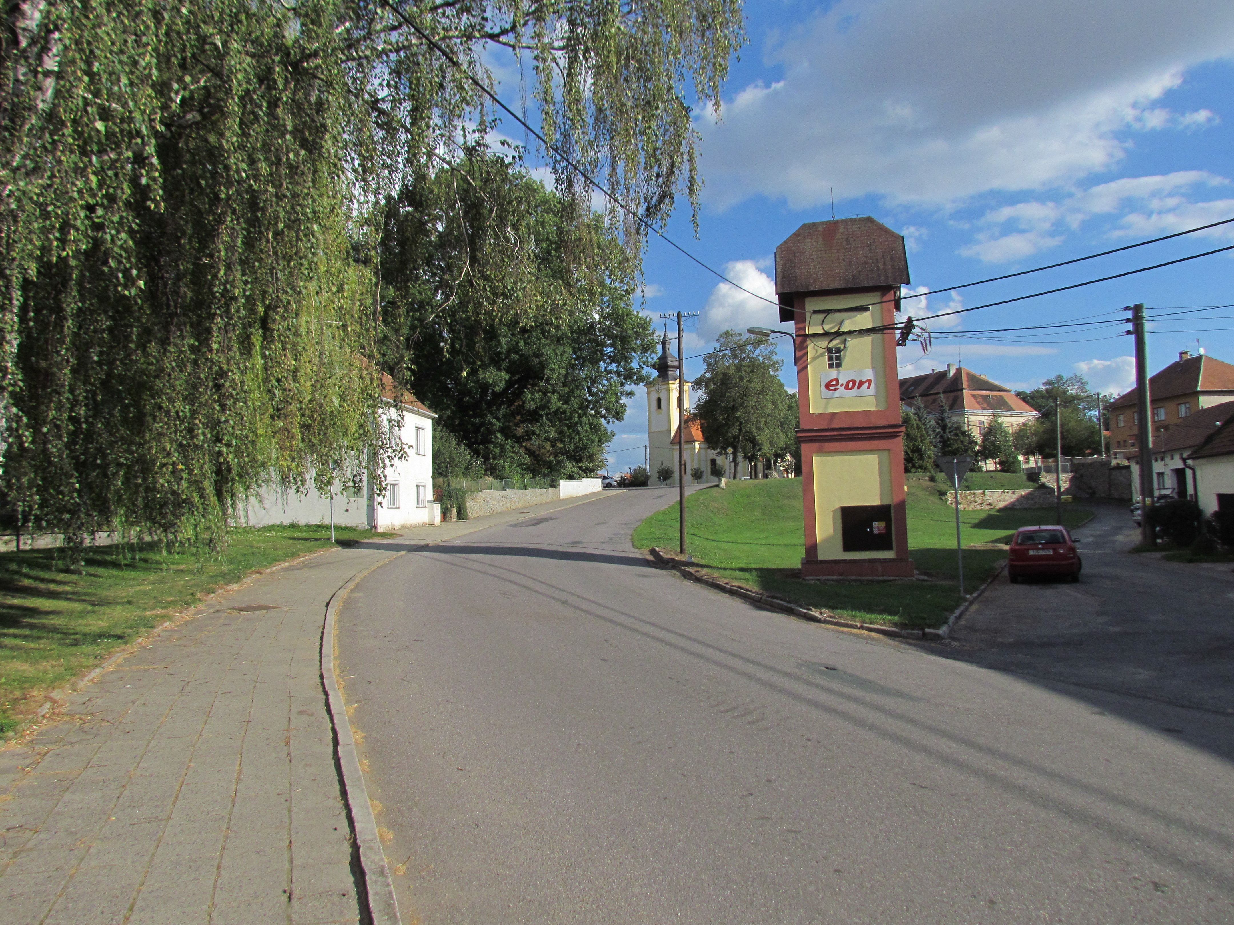 Center of Hostim, Znojmo District.